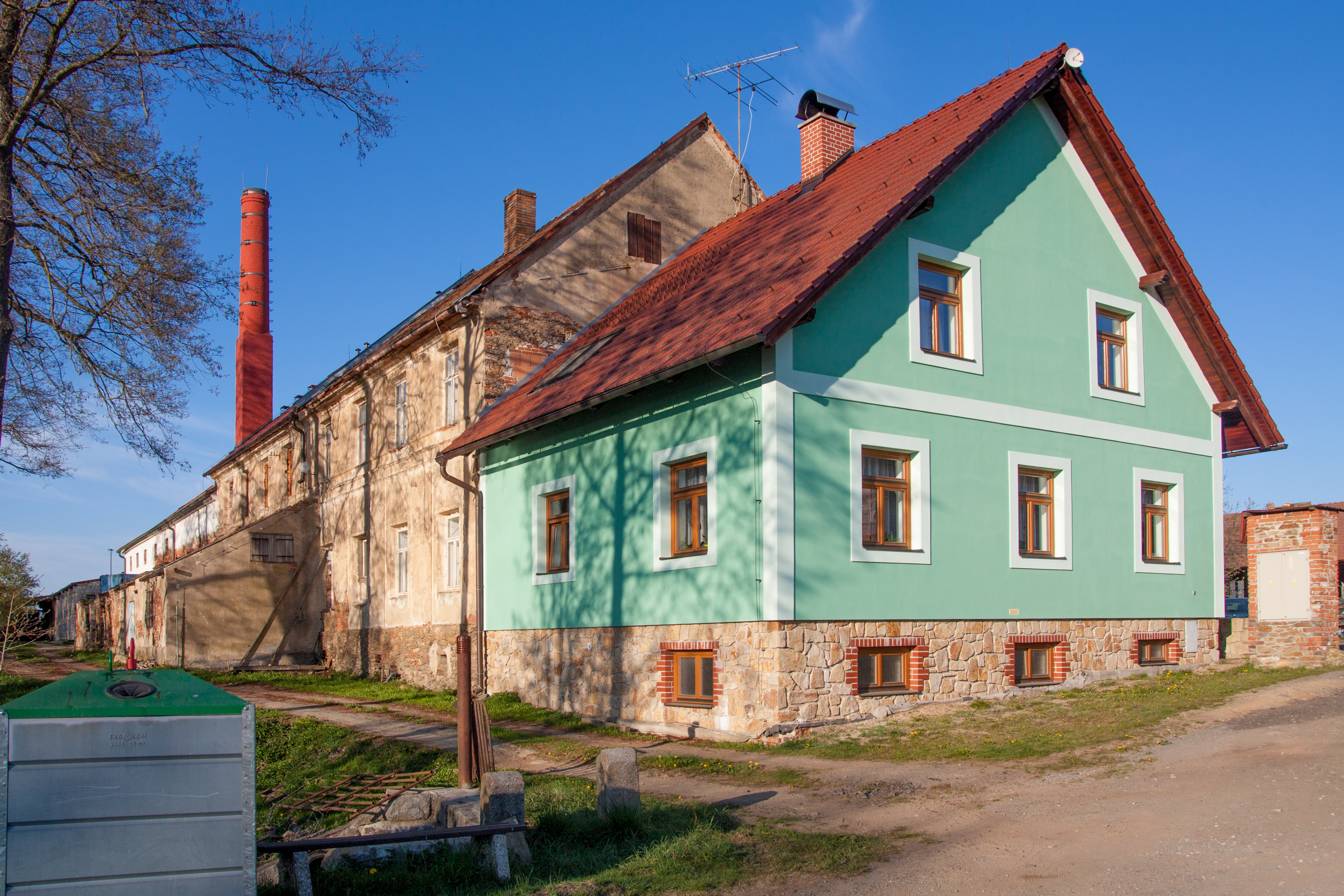 Factory in municipality Úlehle, Tábor District, South Bohemian Region, Czechia